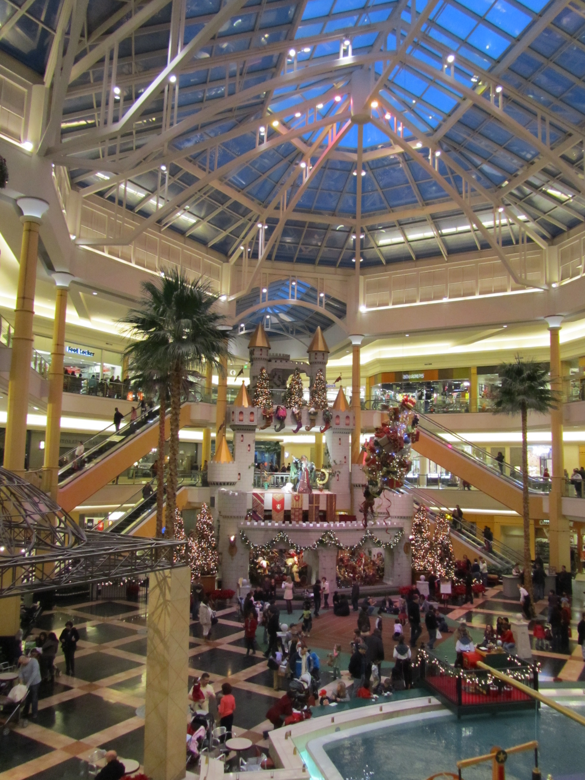 SomersetCollectionMall in Troy Michigan